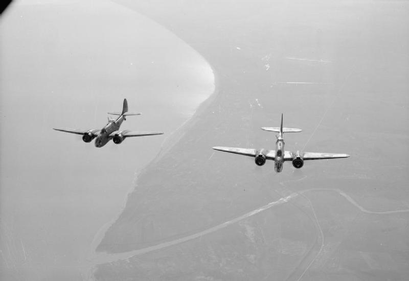 Royal Air Force- Italy, the Balkans and South East Europe, 1942-1945. Martin Baltimore Mark IVs of No. 223 Squadron RAF, based at Celone, Italy, flying over the mouth of the Biferno River, whilst en route up the Adriatic coast to attack the railway and sidings at Montesilvano Marina, north of Pescara.